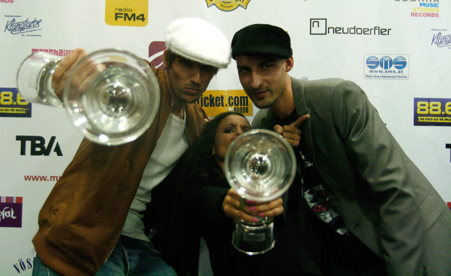 Skero and Joyce Muniz at the Amadeus Austrian Music Award 2010 (Wiener Stadthalle, Vienna, Austria)